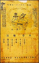 The paper 'Youth' No.1, bt Choi Nam-seon, in Toykyo